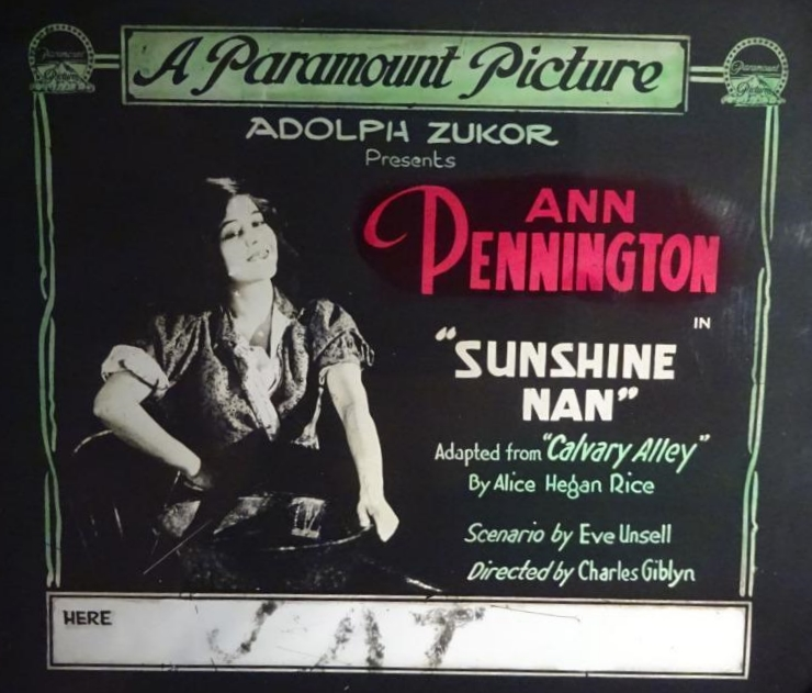 This is a lantern slide for the 1918 American silent comedy-drama film Sunshine Nan.